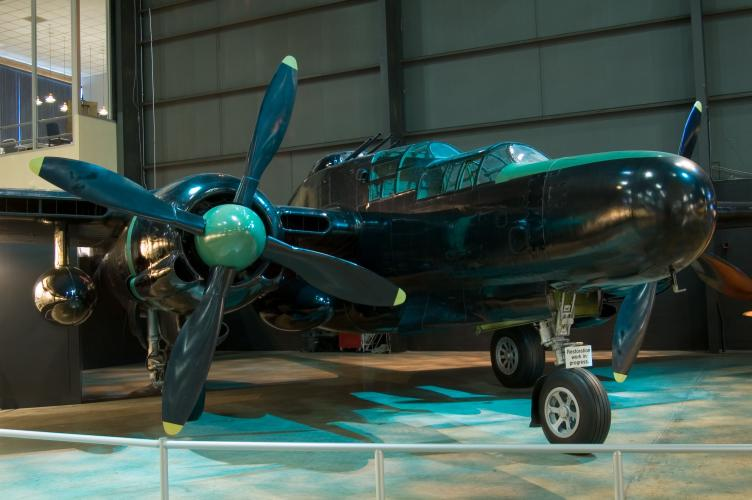 P-61 Black Widow at the National Museum of the United States Air Force